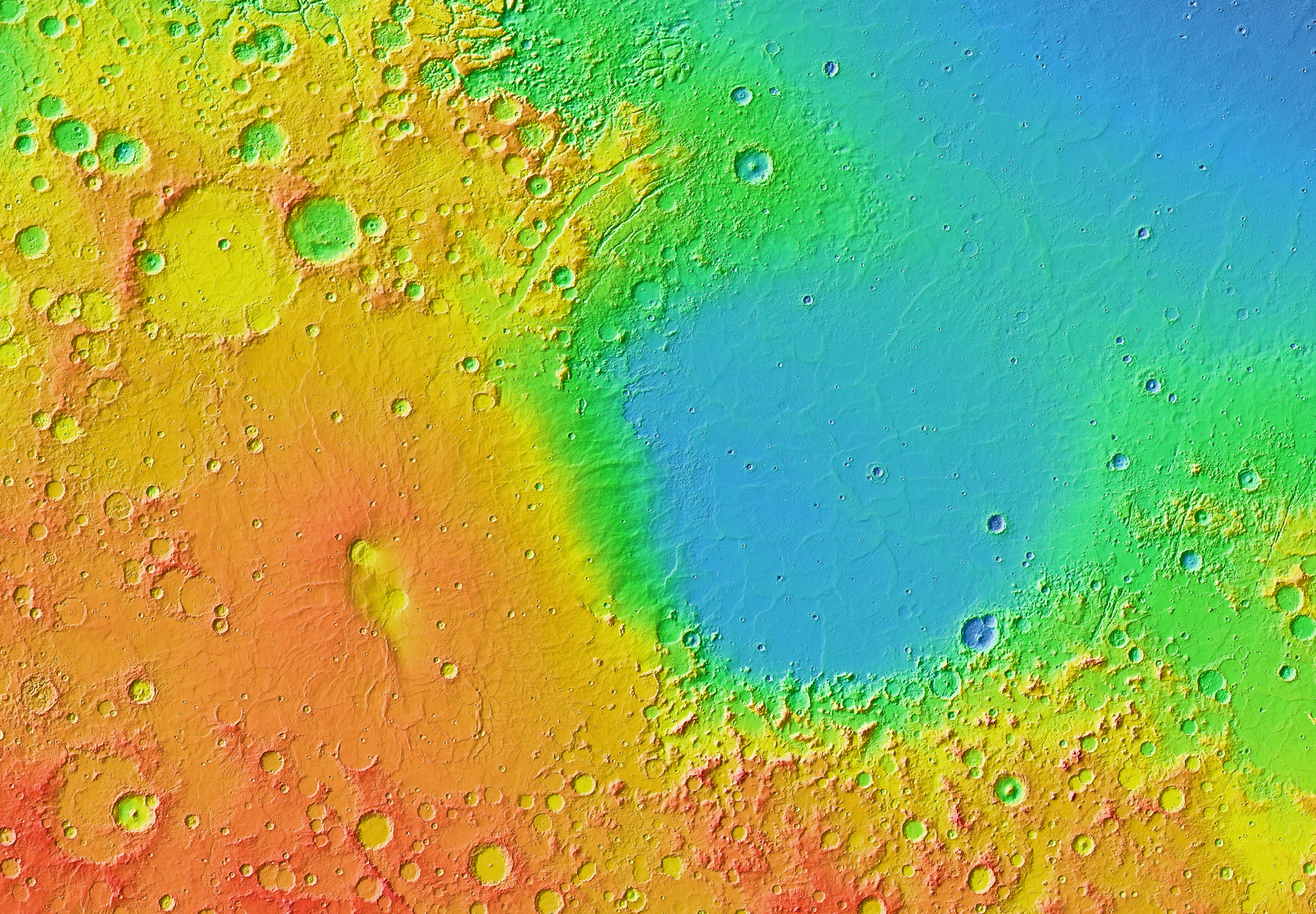 Mars Orbiter Laser Altimeter (MOLA) colorized topographic map showing the impact basin Isidis Planitia (right) and the broad, low-lying shield volcano Syrtis Major Planum (left), just north of the equator in the eastern hemisphere of Mars. Isidis is the third largest of the obvious impact basins on the planet. The calderas Nili Patera (upper left) and Meroe Patera (lower right) are visible within the central region of Syrtis Major. Some of the features in this image are annotated in Wikimedia Commons.